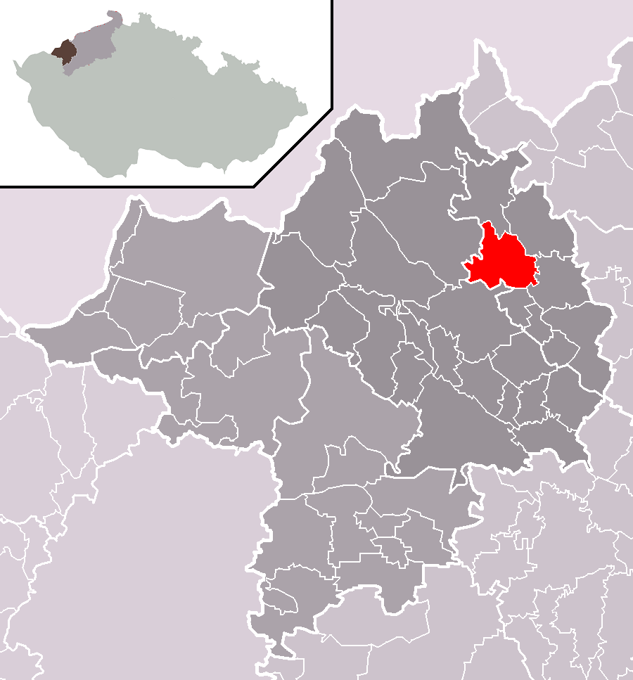 Location of Jirkov town within Chomutov District and administrative area of Chomutov as a Municipality with Extended Competence.